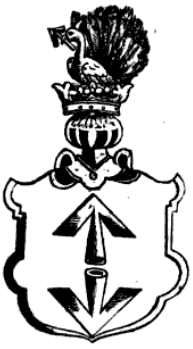 Bogoria coat of arms by B. Paprocki, published in "Herby rycerstwa.."